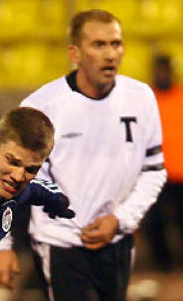 Sergei Kormiltsev in action for FC Torpedo Moscow